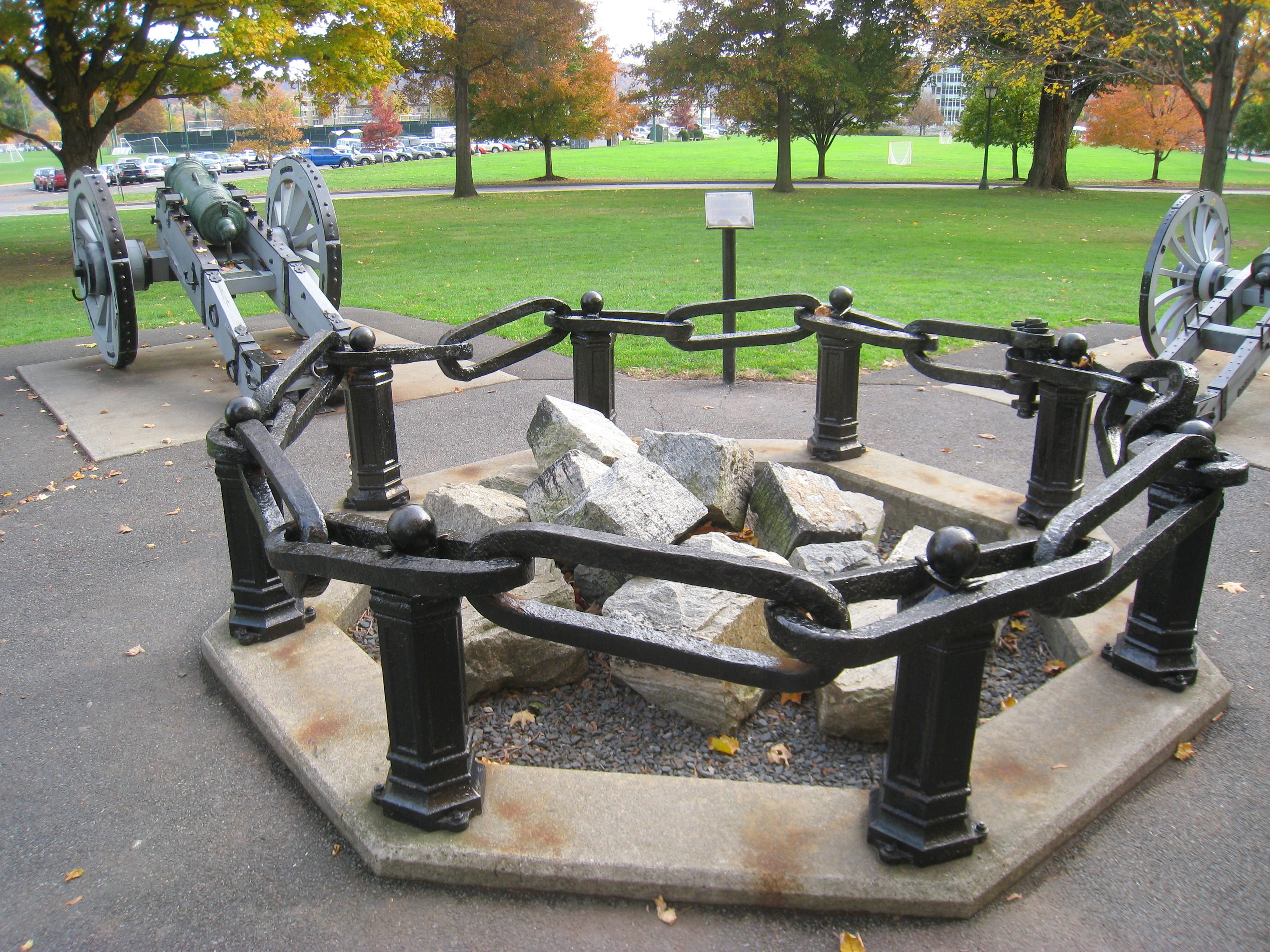 The Great Chain, United States Military Academy, West Point, New York, USA.